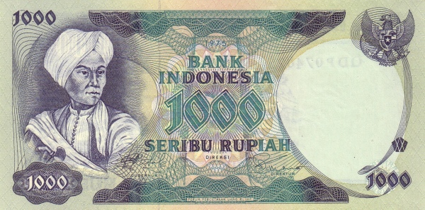 Indonesian currency issued 1976-2000.